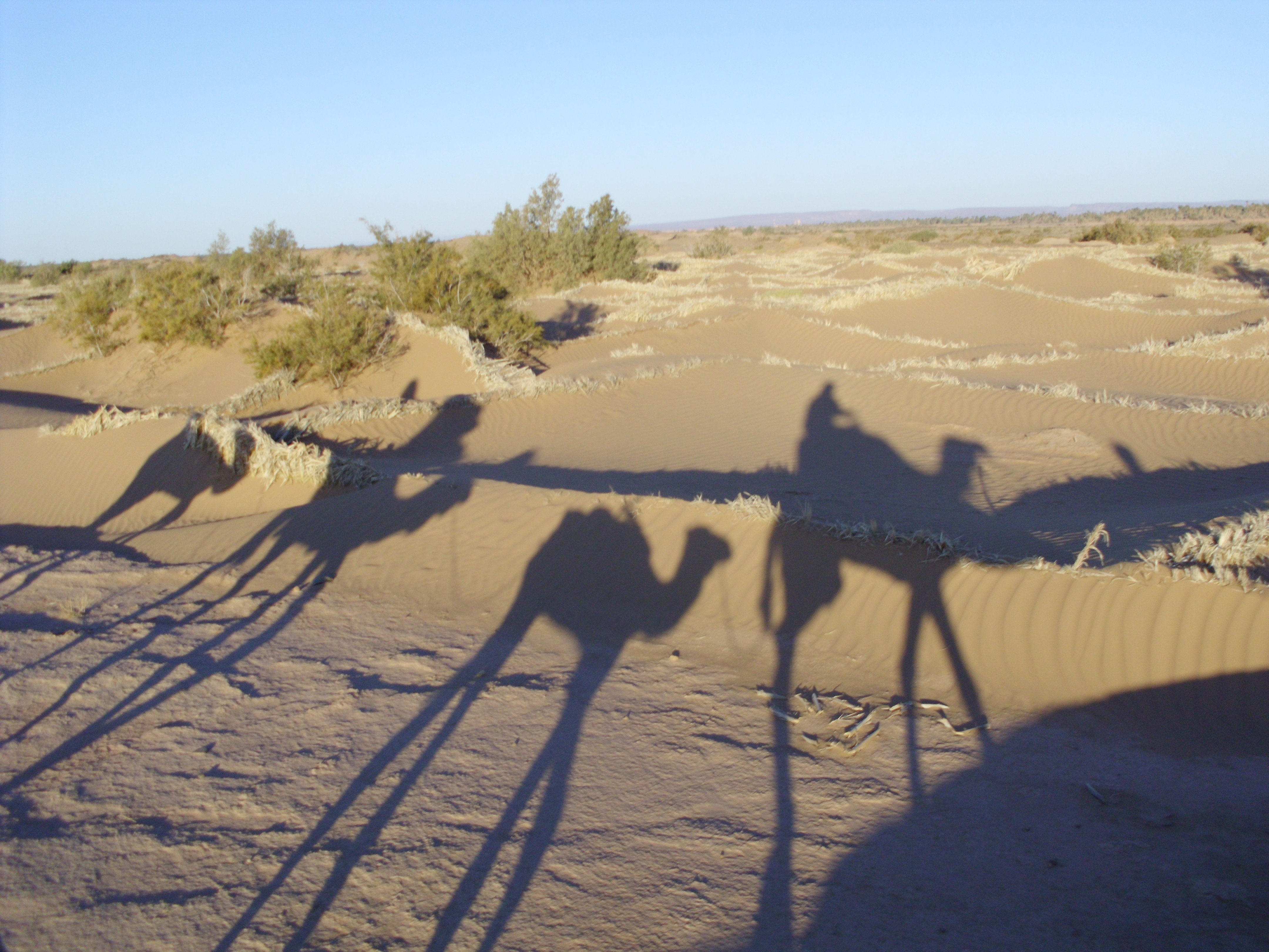 Camel riding in the Mhemid ergs of Sahara, Morroco